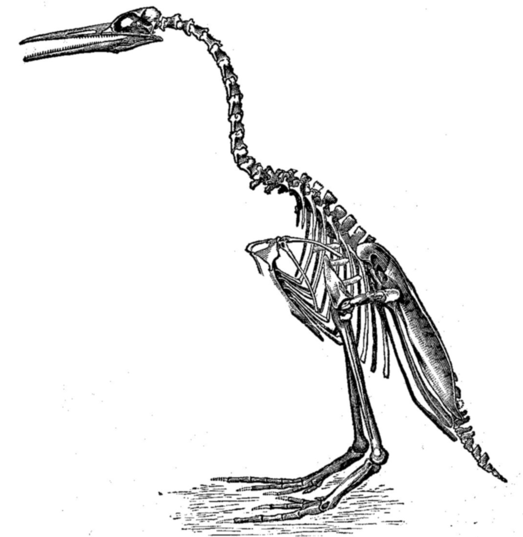 Hesperornis regalis, a species of ancient flightless bird, as drawn by Othniel Marsh. This reconstruction is obsolete; the bird was not able to assume such a posture without disjointing its legs.